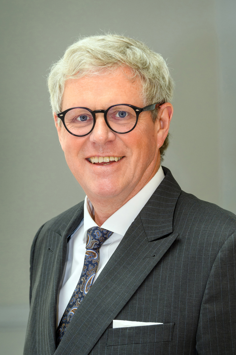 Andreas Schlüter, Secretary-general Stifterverband